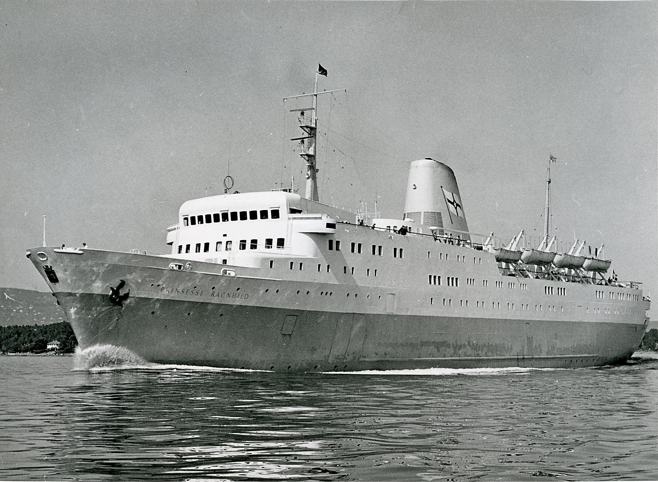 Photo credit: Color Line